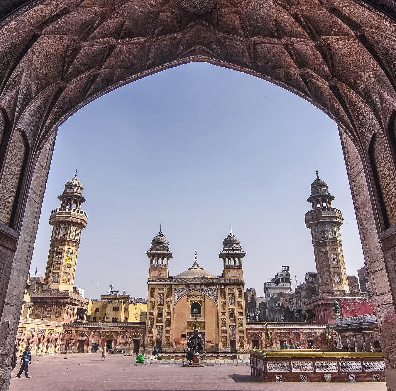 A view of the Wazir Khan Mosque